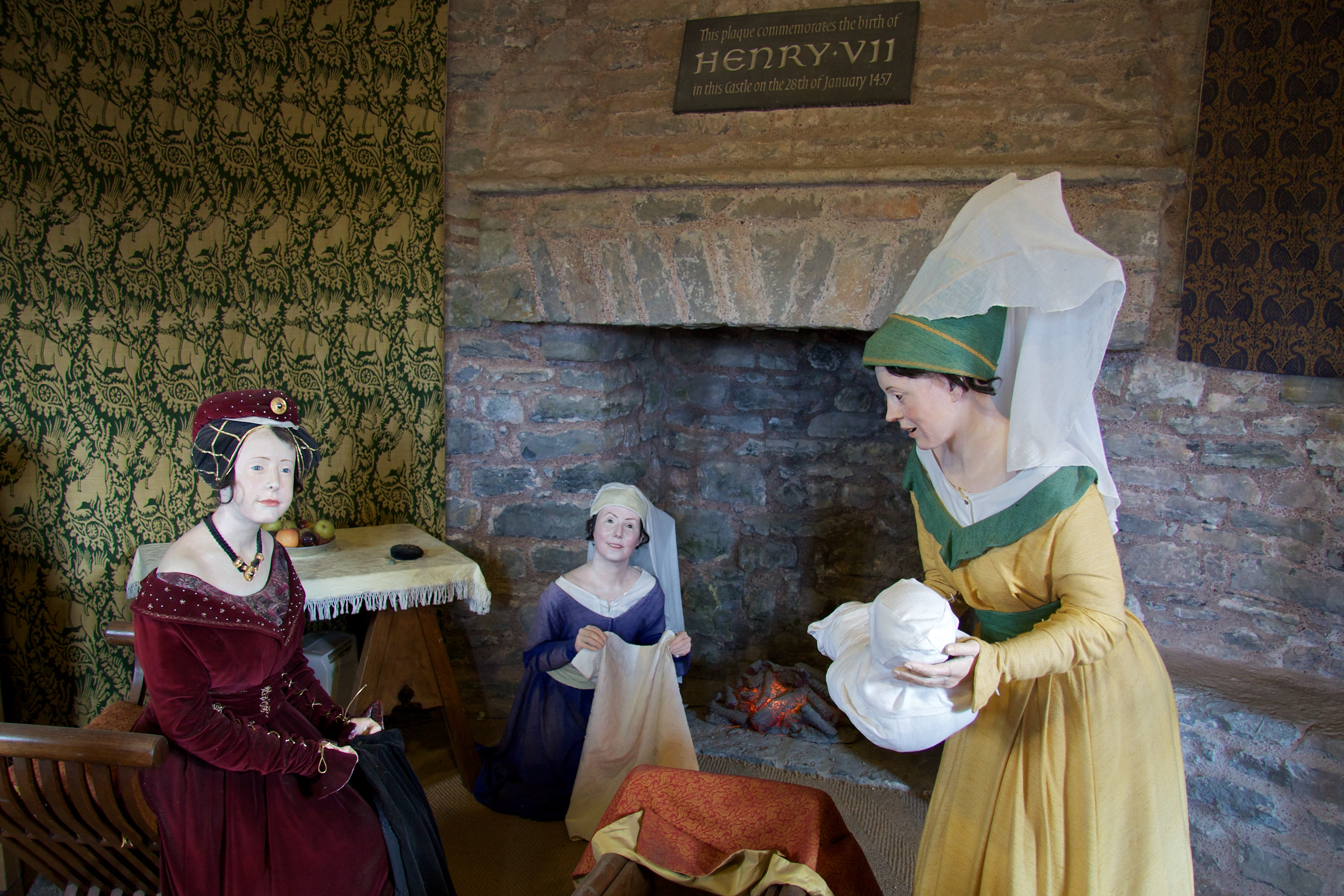 Modern depiction of the birth of Henry VII at Pembroke Castle